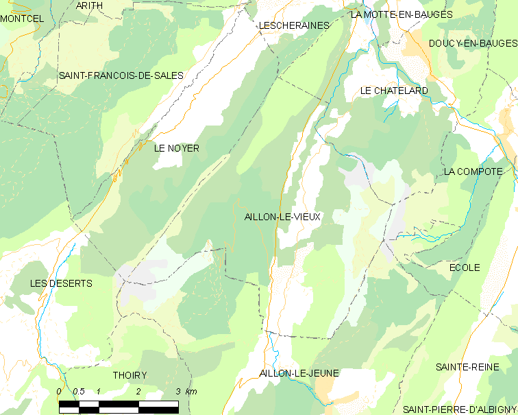 Map of French municipality